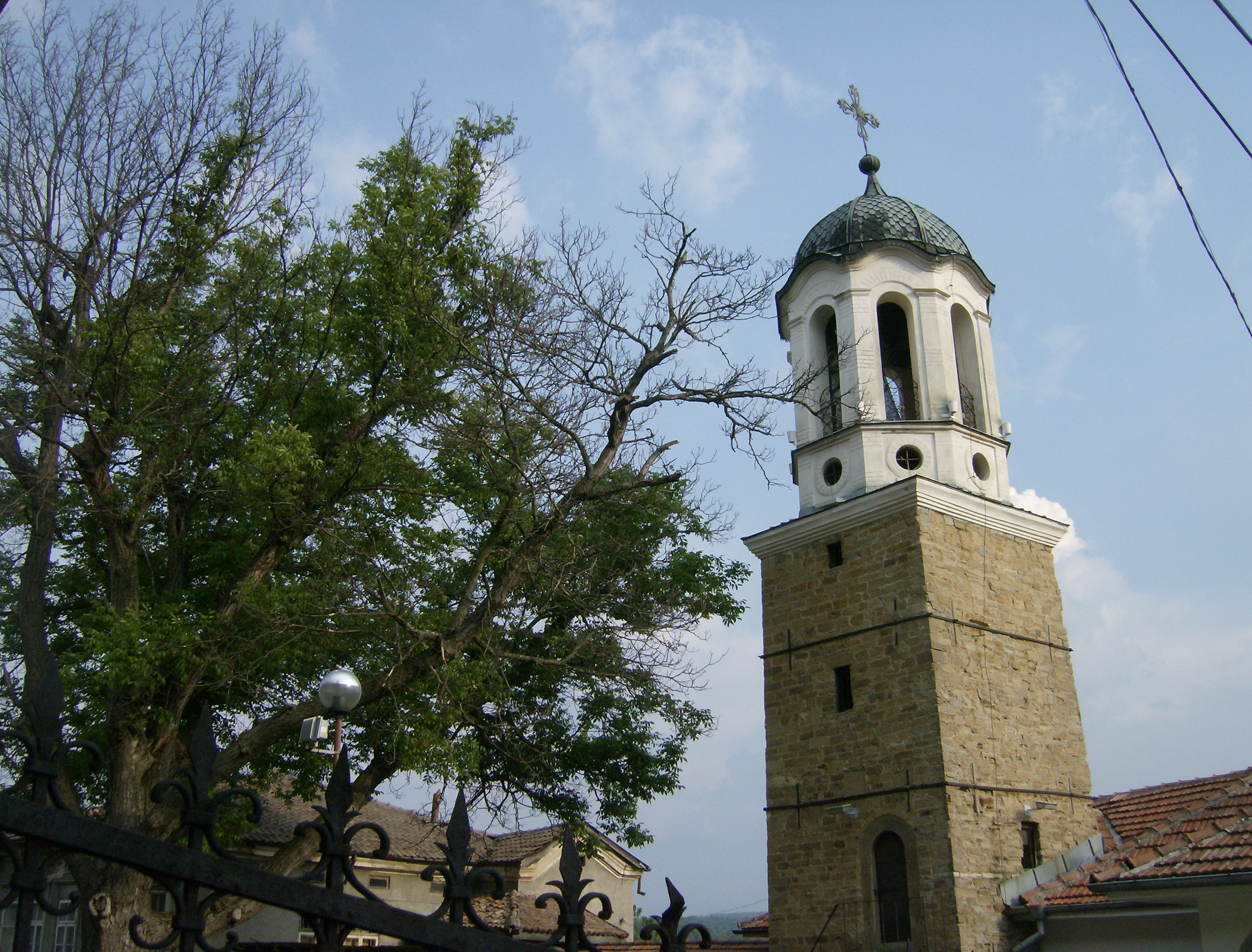 Saint Nicholas, Veliko Tarnovo